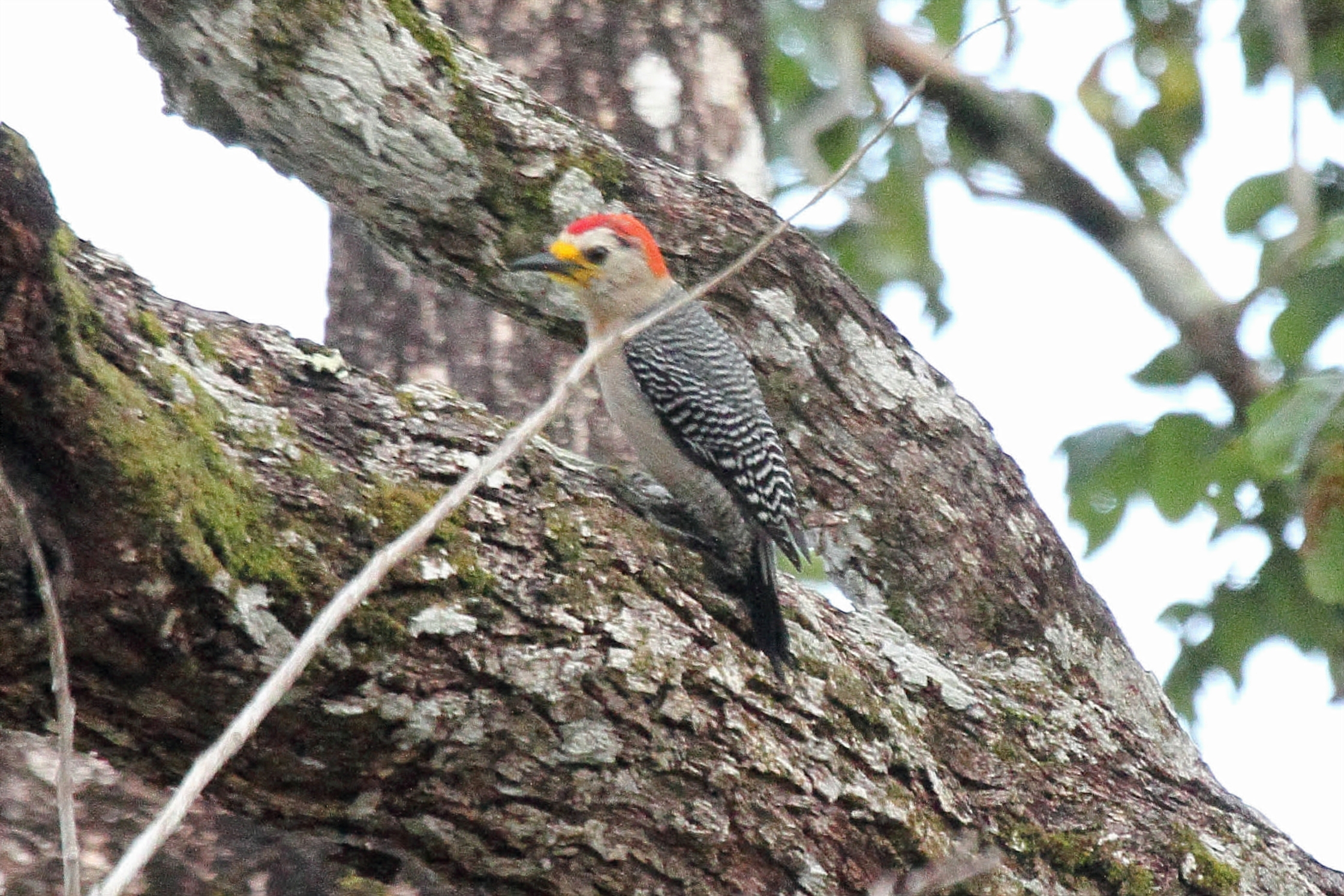 Yucatan Woodpecker (Melanerpes pygmaeus)